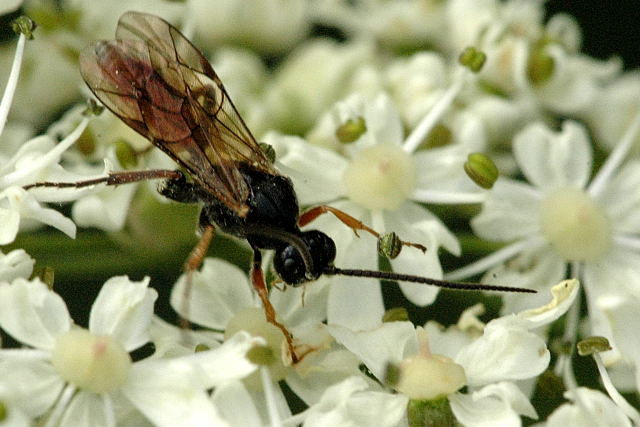 Olesicampe incrassator from Commanster, Belgian High Ardennes .